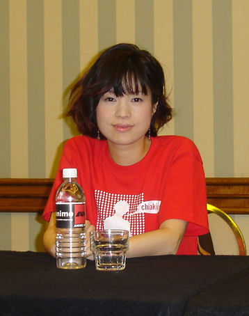 Chiaki Ishikawa at her press panel at Anime Expo 2007 in Long Beach, California.